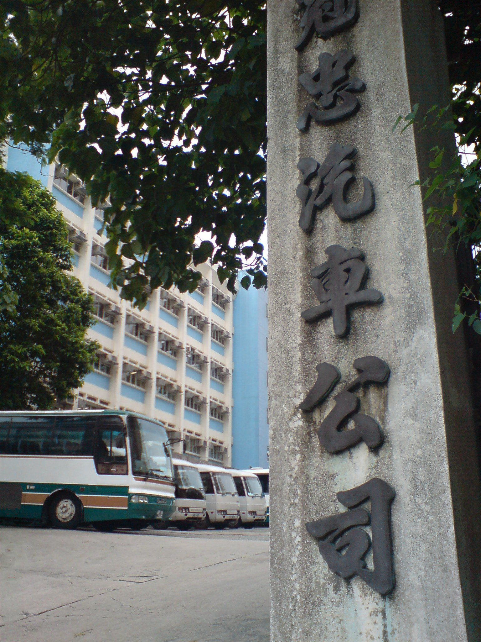 Image taken in Kwoon Chung Bus Limited in Breamar Hill in August 2008